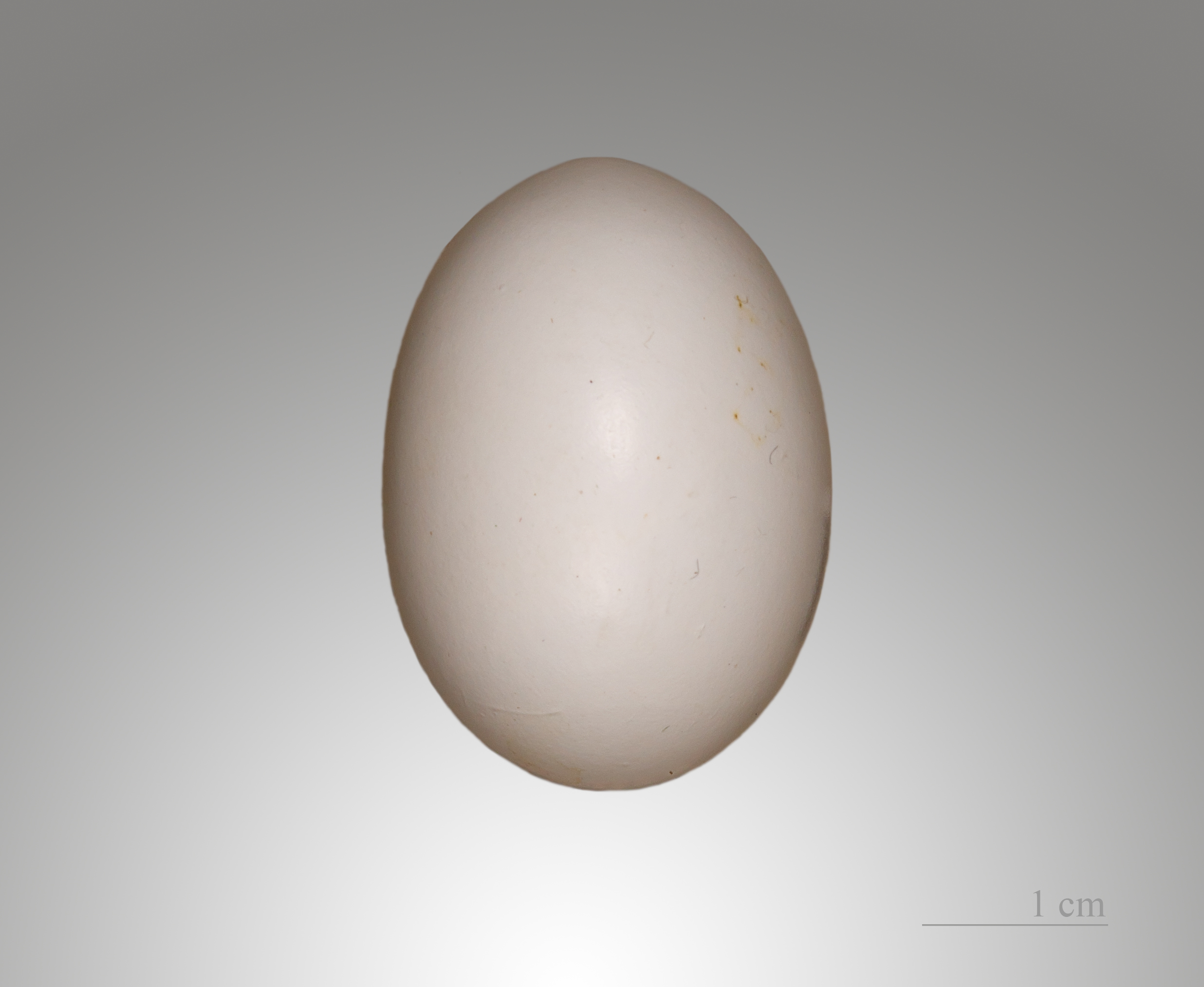 Egg of Eurasian Collared Dove. Collection Jacques Perrin de Brichambaut. Locality: Lumigny-Nesles-Ormeaux, Seine-et-Marne, France.